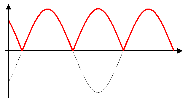 Output voltage waveform of a full-wave rectifier.